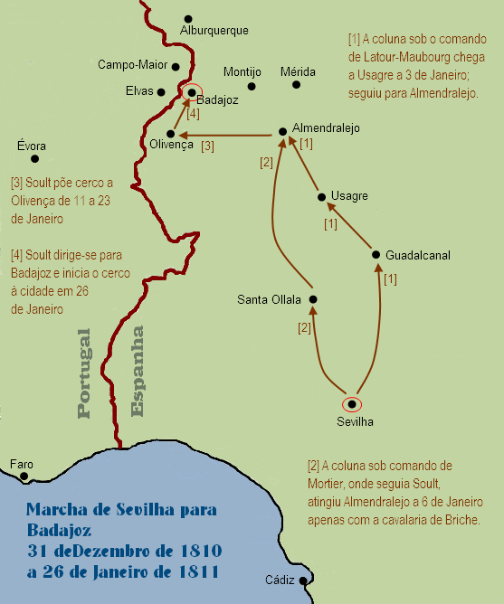 Route of the march of French troops, from Seville to Badajoz, during the first siege of Badajoz in 1811.